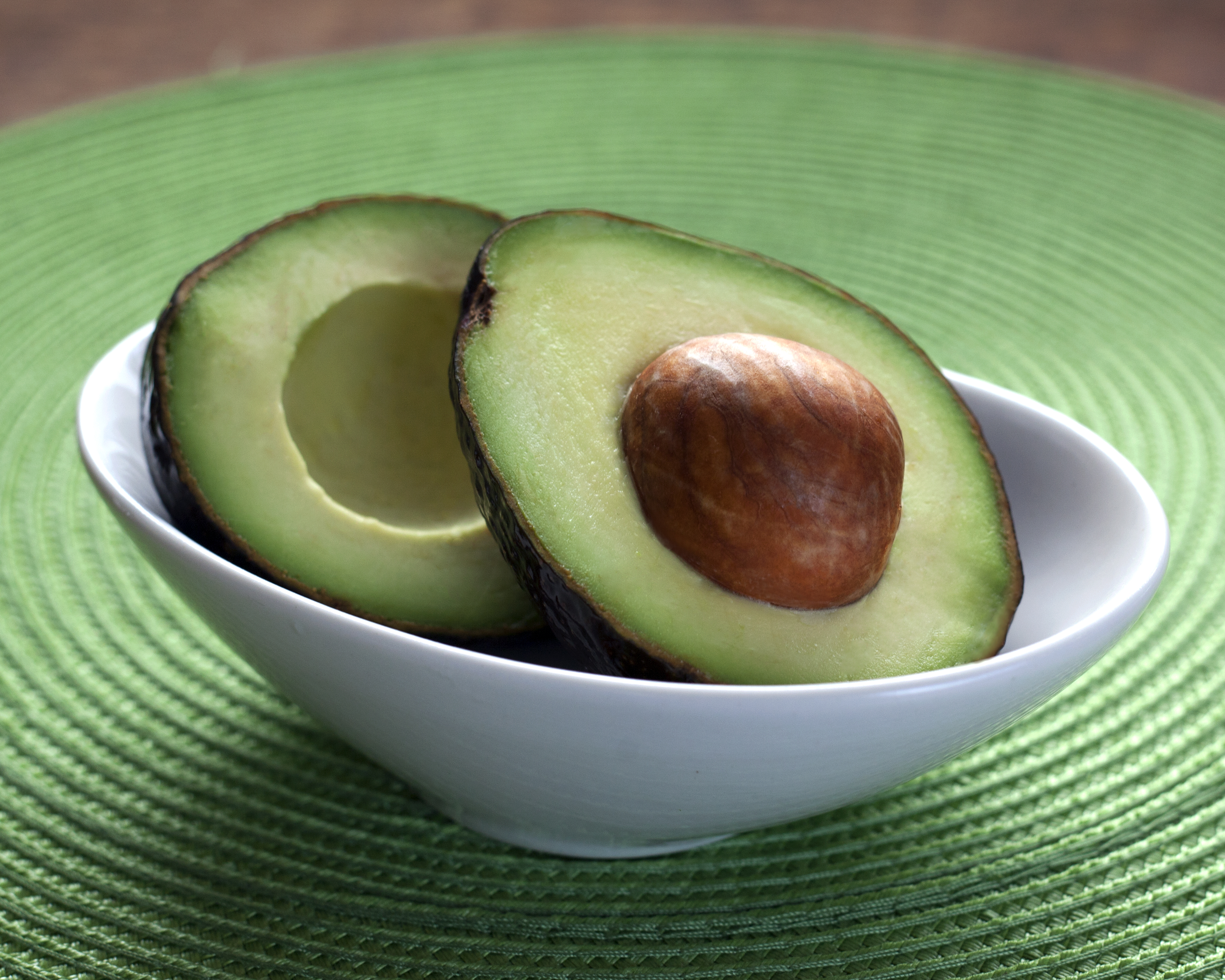 This photo is available under Creative Commons. If you use this image, please give credit to with a clickable link.